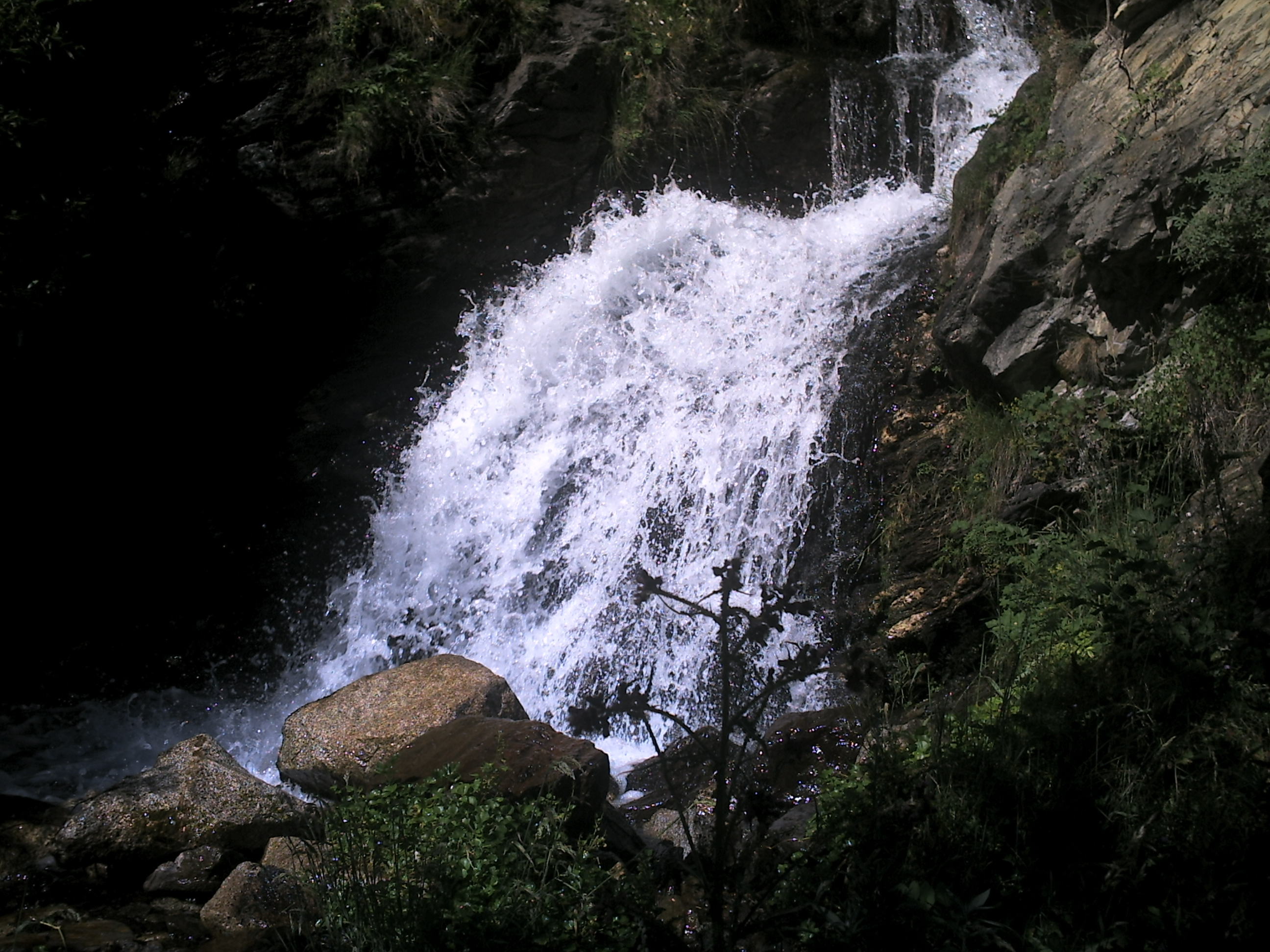 Flamisell river at Vall Fosca